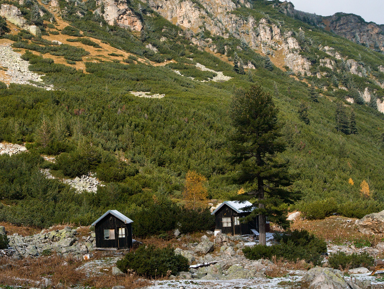 Bungaloes in front of Maliovica hut, Rila mountain, Bulgaria. Photo cropped from source image to show Pinus peuce tree.